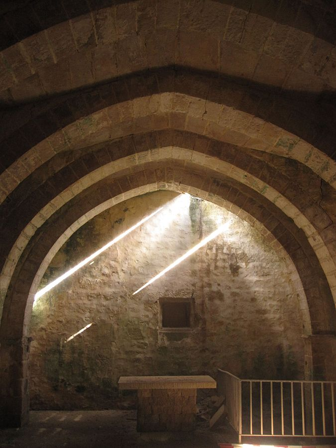 The abandoned interior of the chapel of St Michael is-Sancier located in limits of Rabat, Malta. The chapel dates from the 15th century.